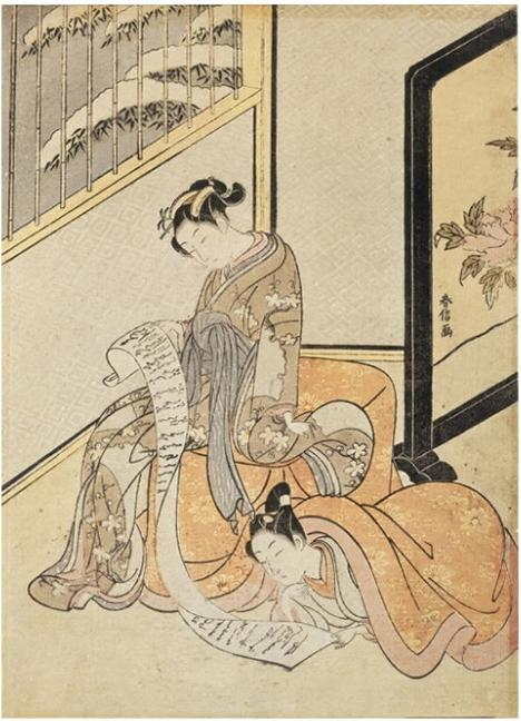 Woodblock print, about 1768, Suzuki Harunobu V&A Museum no. E.1053-1963 Techniques - Block print on paper Dimensions - Height 26 cm (unframed) Width 19 cm (unframed) Object Type - Woodblock prints such as this were produced in large numbers in 18th- and19th-century Japan. They were created by artists, block cutters and printers working independently to the instructions of specialist publishers.This print was published in the 1760s when the techniques of full-colour printing were being perfected. Prints such as this are sometimes called ukiyo-e, which means 'pictures of the floating world'.This world was one of transient delights and changing fashions centred on the licensed pleasure districts and popular theatres found in the major cities of Japan. Subjects Depicted - Suzuki Harunobu, the artist of this print, was well known for his portrayals of young lovers. Here we see an intimate scene in an apartment in the Yoshiwara, the licensed brothel district of Edo (modern day Tokyo). It is winter and the bamboo trees outside the window are laden with snow. The plum blossoms that decorate the courtesan's kimono also allude to the season. She sits, with her obi (sash) casually tied at the front, at a kotatsu (brazier) covered with a futon (quilt), reading one end of a long scroll letter. Her lover kneels at her side, keeping warm under the covers, reading the other end of the letter.